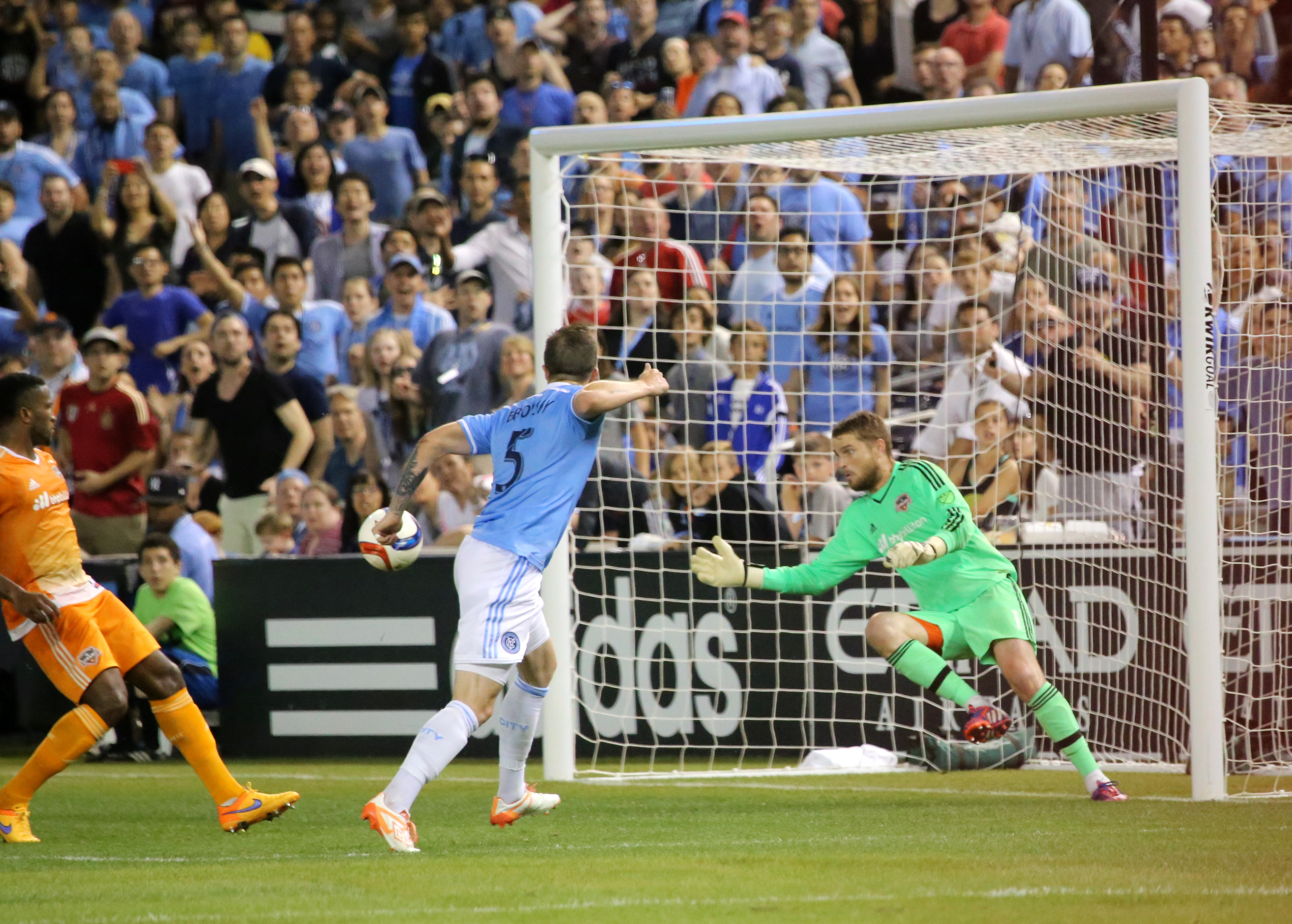 Jeb Brovsky takes a shot on goal, and it goes just wide.